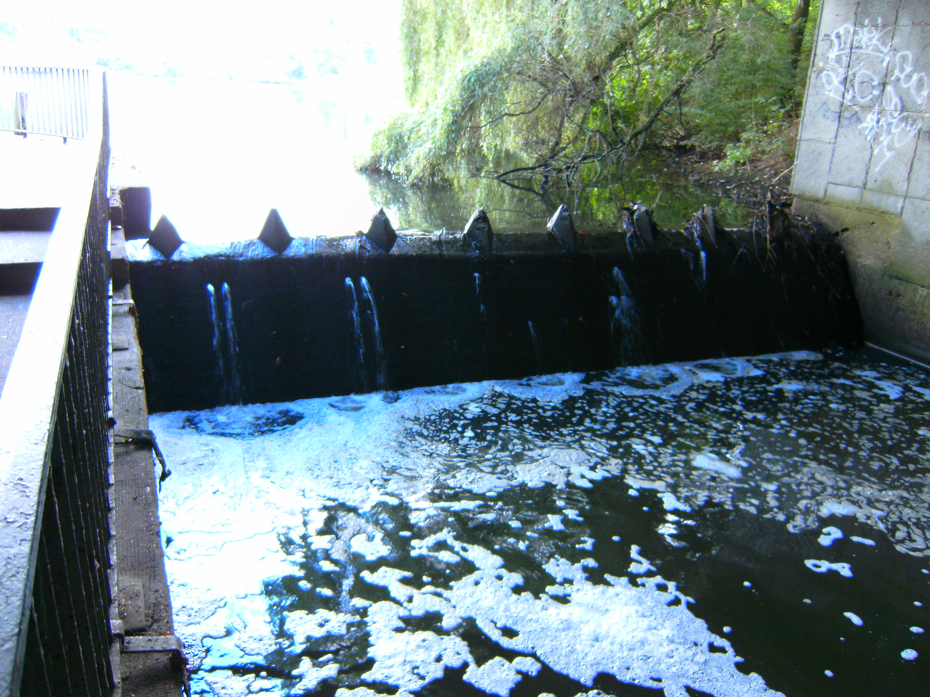 A weir in Hamburg-Wandsbek under the Mühlenstraße dams up the Mühlenteich.